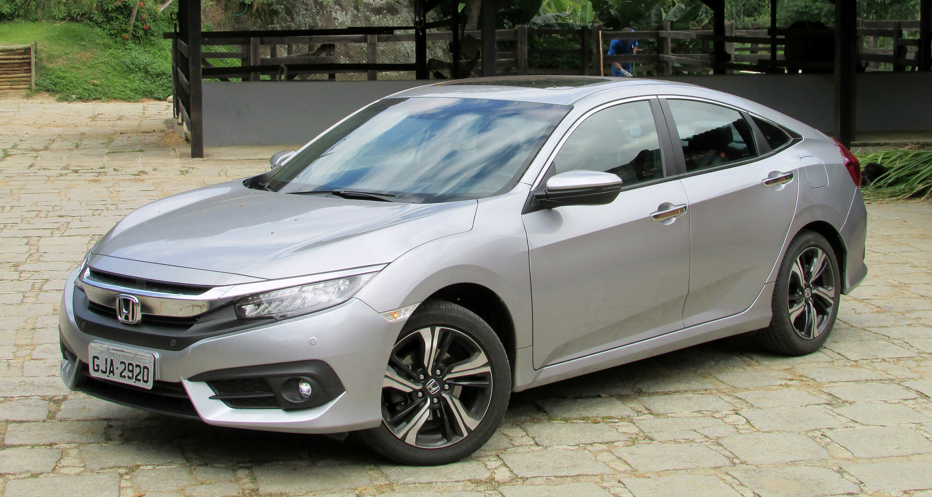 A brazilian made Honda Civic Touring 1.5 turbo, model/year 2017.